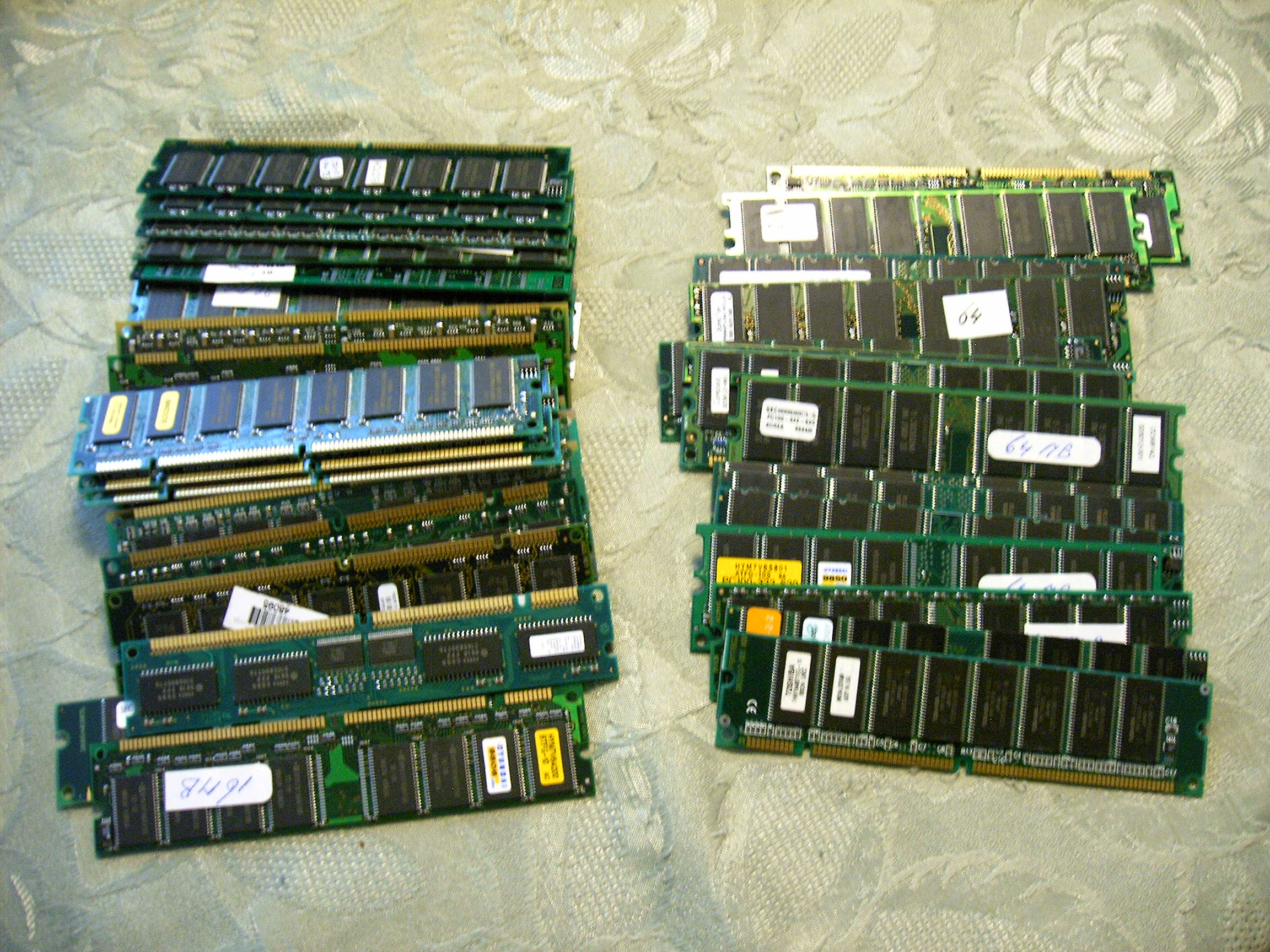 Computer memory